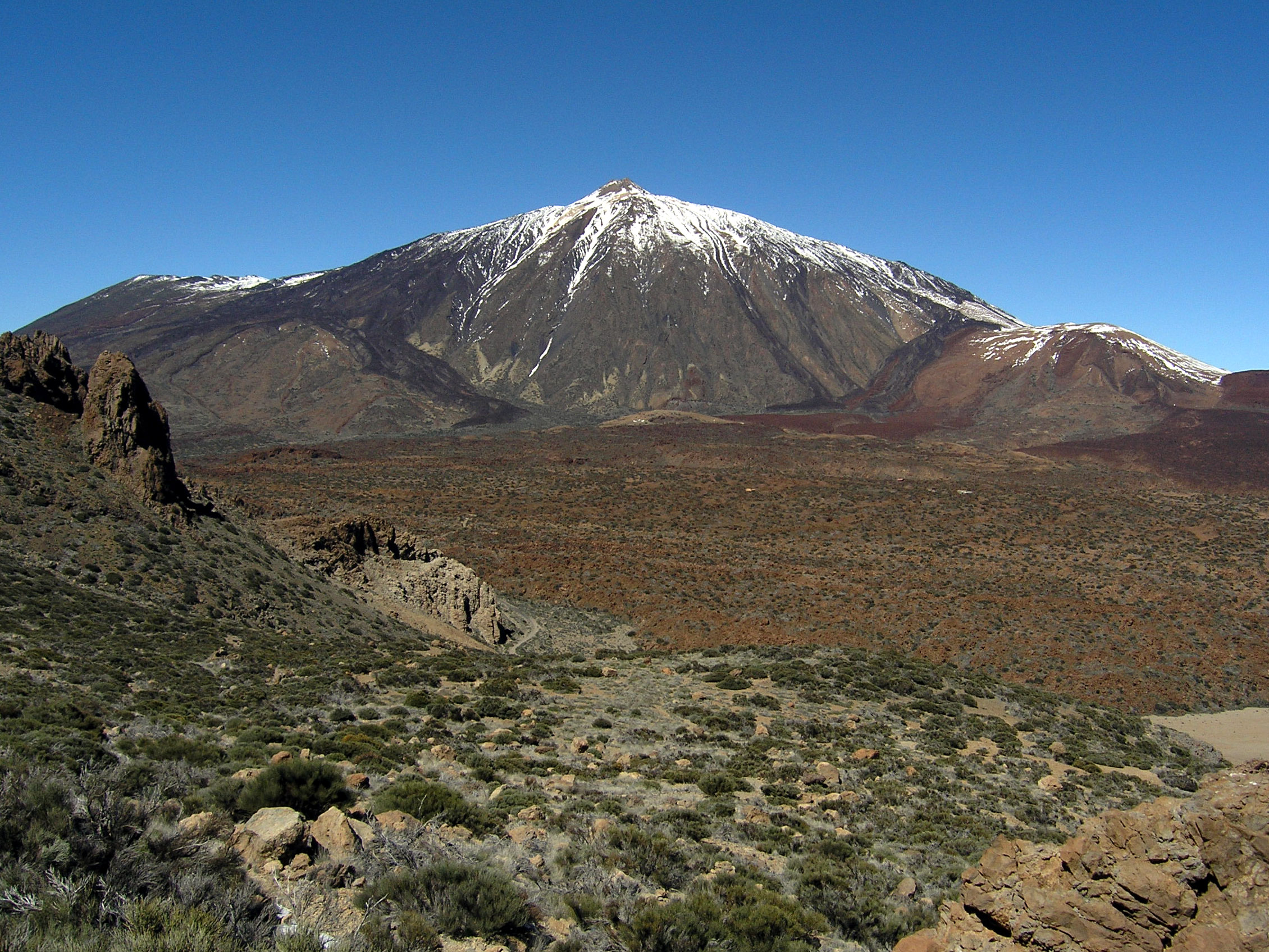 Teide and the Caldera, Tenerife. View from south (close to Guajara).